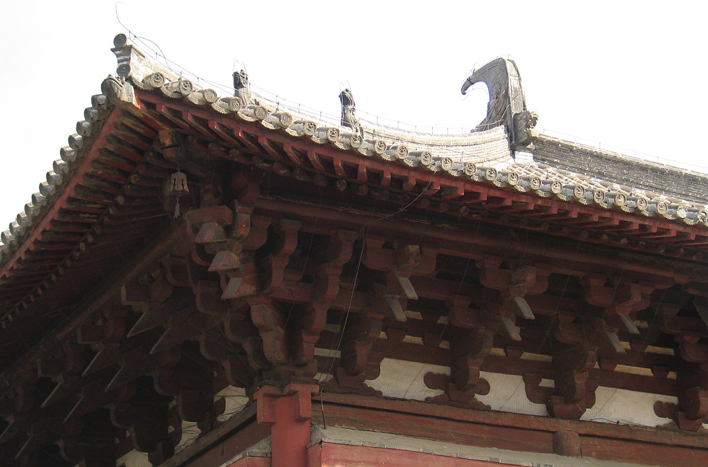 更多haier7917的中国古建照片/ more photos of ancient chinese architecture by haier7917：